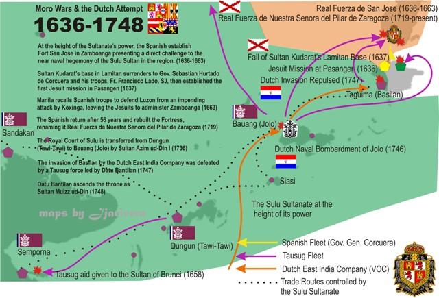 1636-1748 map of the Sulu Archipelago, the Philippines